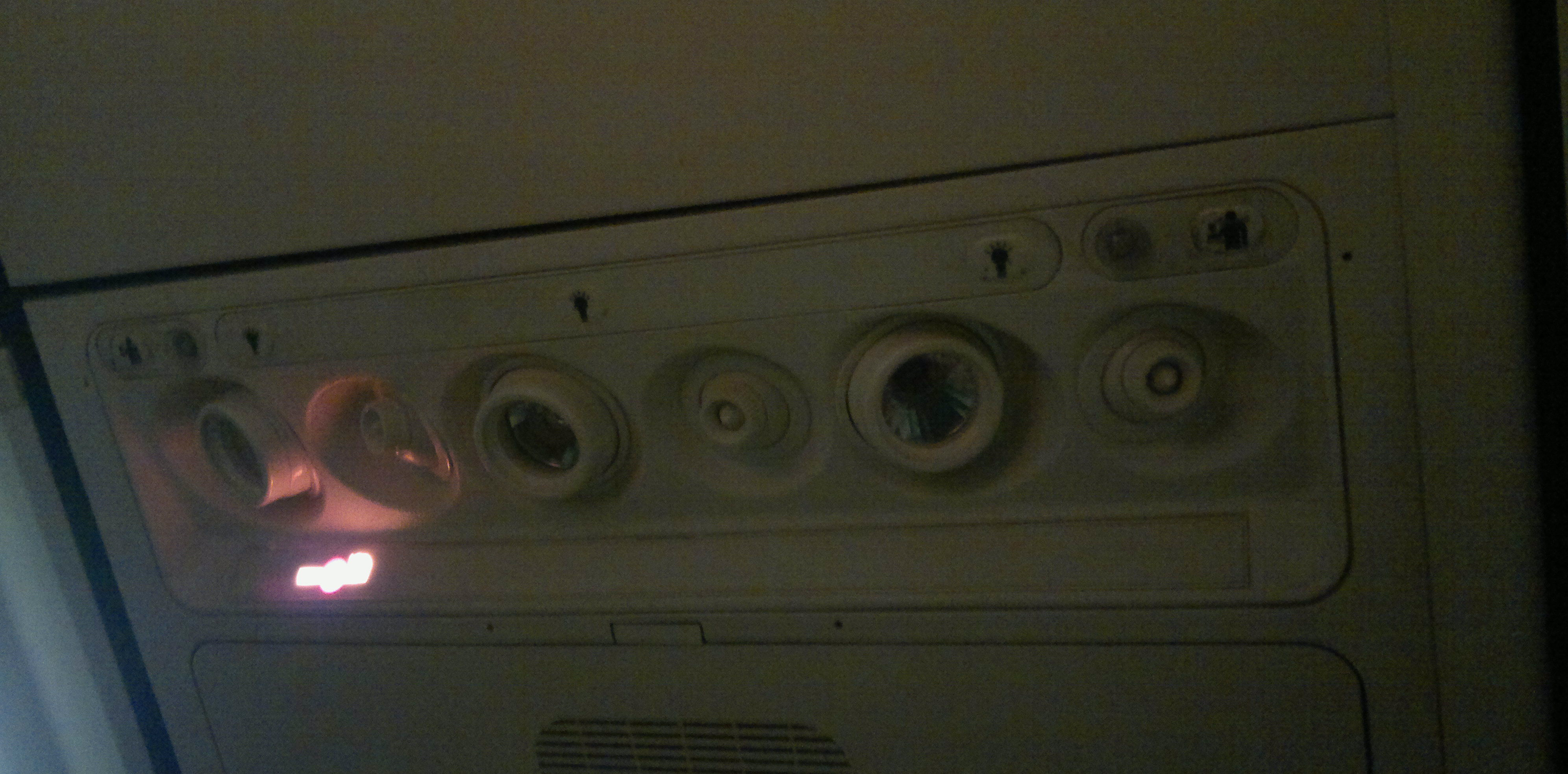 Overhead gaspers in passenger compartment of a Boeing 737 800